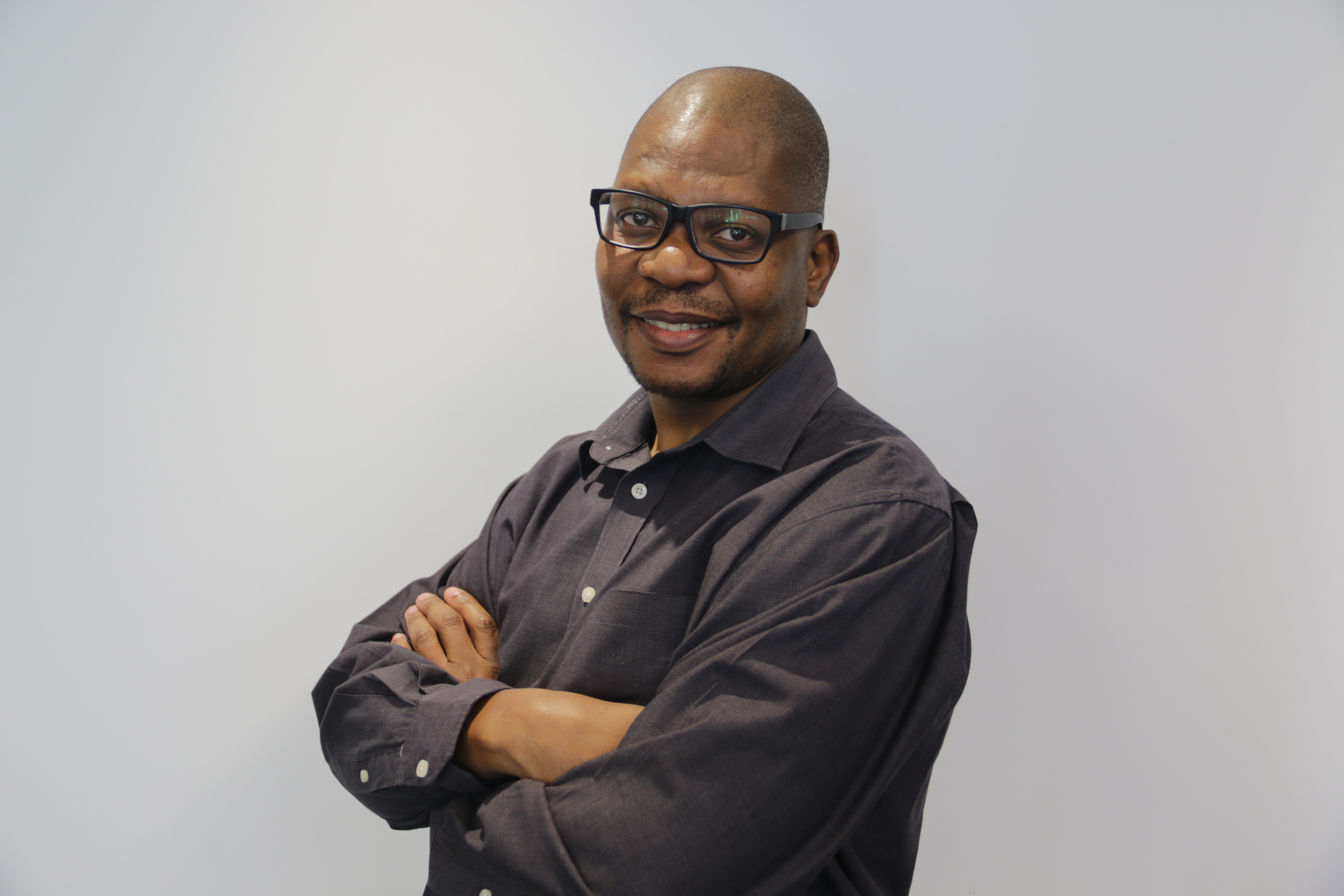 Mondli Makhanya is editor in chief of the City Press news brand.